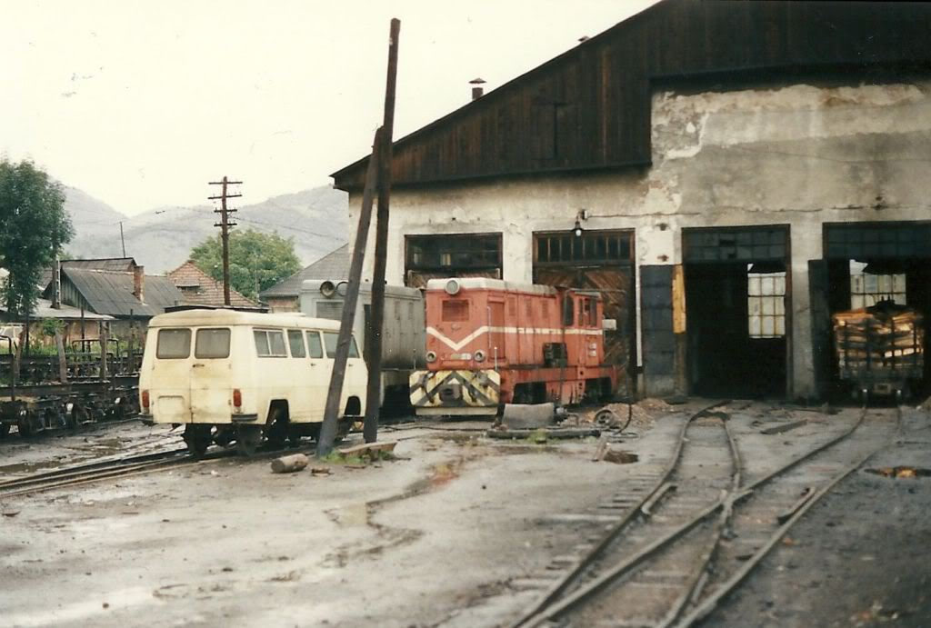 Locomotive depot in Vișeu